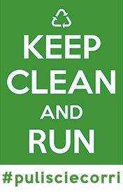 Brand of the environmental campaign Keep Clean And Run